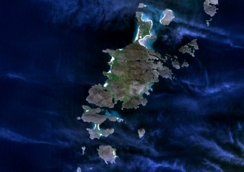 Satellite view of Barra surrounded by Vatersay, Sandray to the south, and Hellisay, Gighay and Fuday to the north.